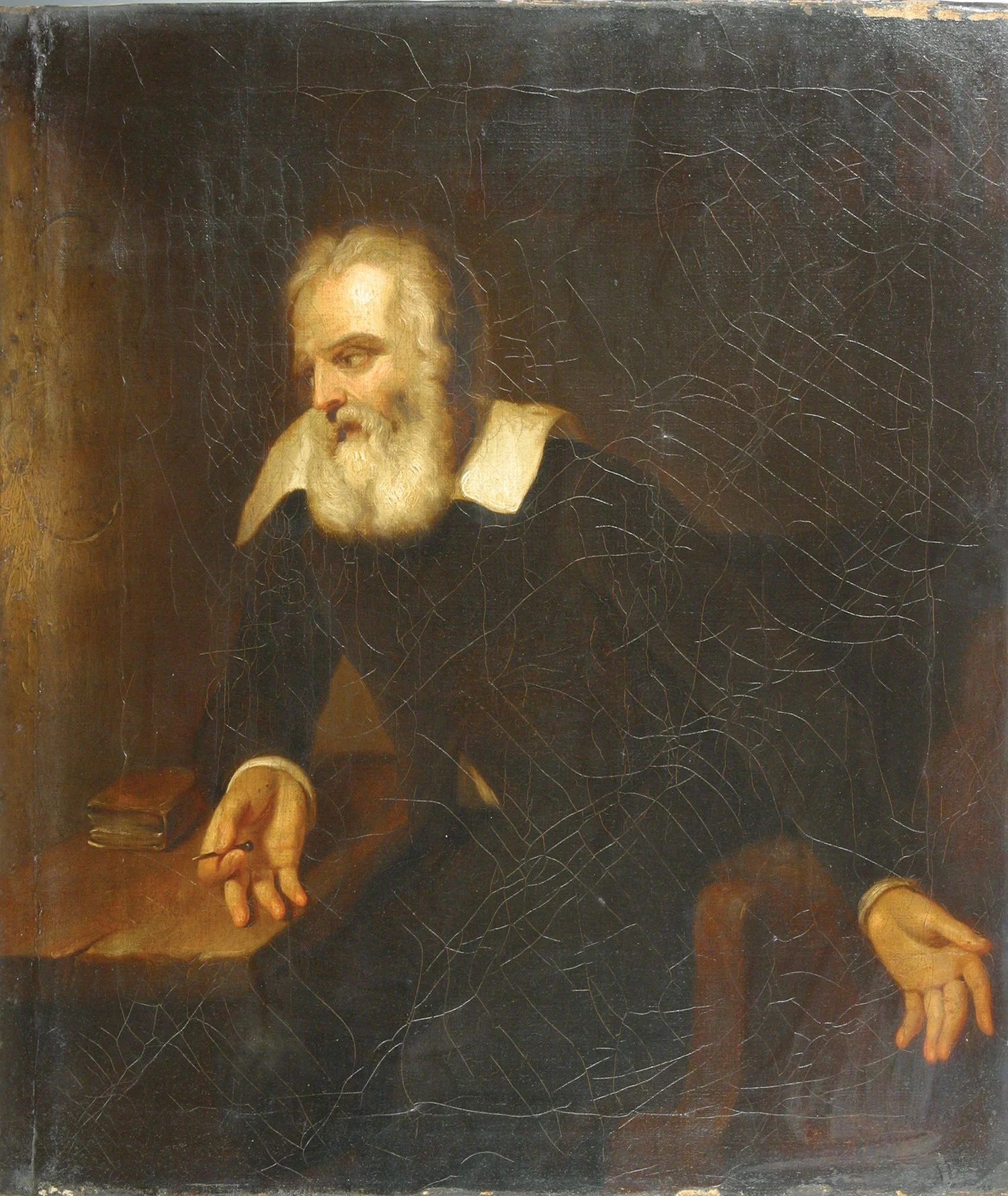 Galieo is depicted as holding a nail and gazing at diagrams he has scratched on the wall of his prison cell. Underneath a diagram of the Earth orbiting the Sun (barely visible in this image), the words "E pur si muove" appear (not legible in this image).